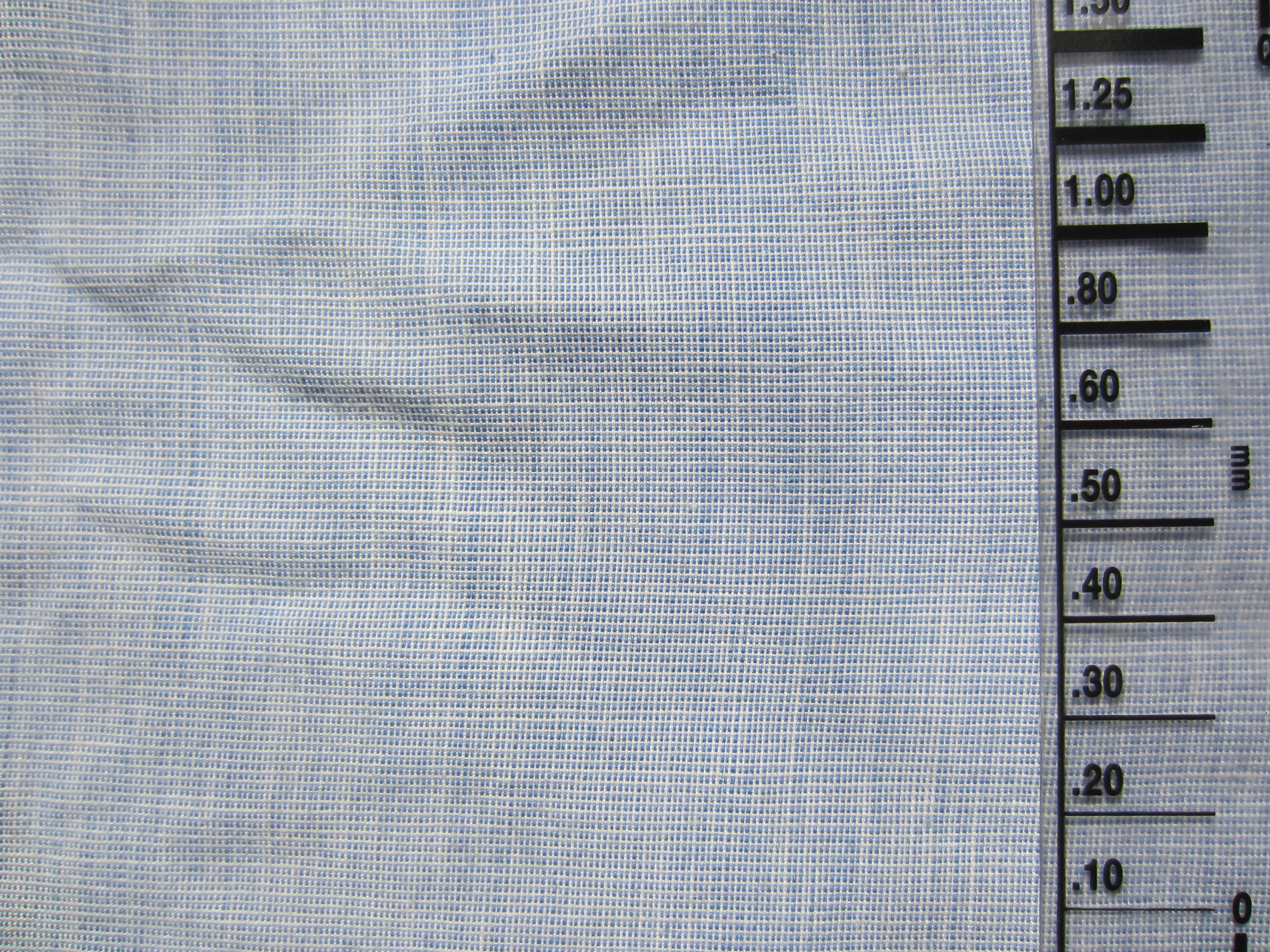 Example of blue end-on-end cotton cloth. Cloth has been washed. Scale shown in millimeters.